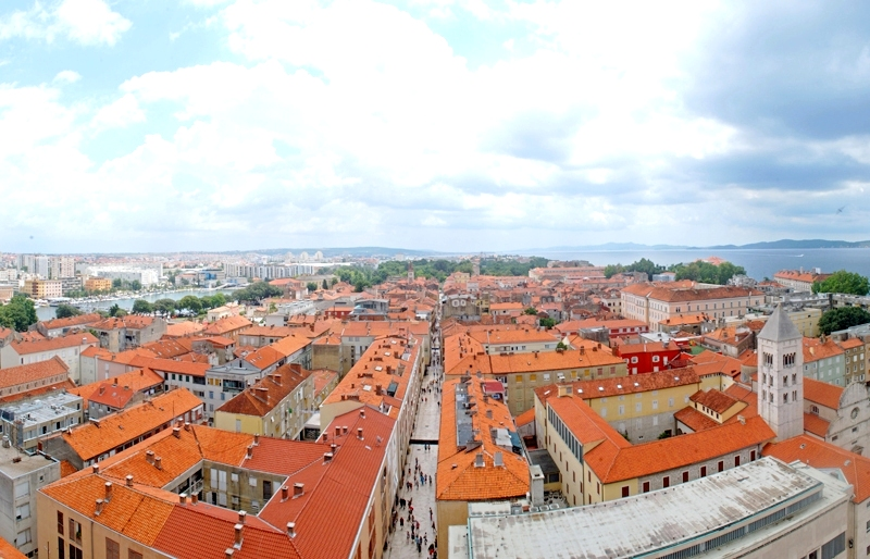 View of Zadar Town and Adratic Sea from the Bell Tower, Zadar